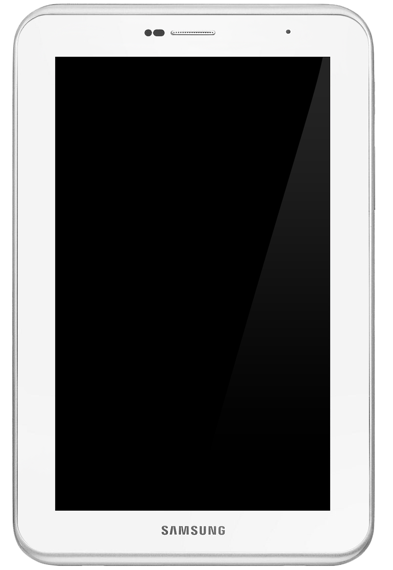 Samsung Galaxy Tab 2 7.0 render